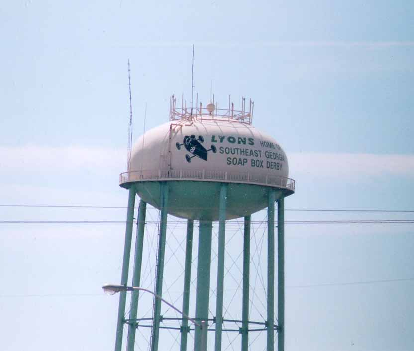 The water tower of Lyons. Photo taken on March 19, 2005 by user:Geogre. Donated to the public domain.